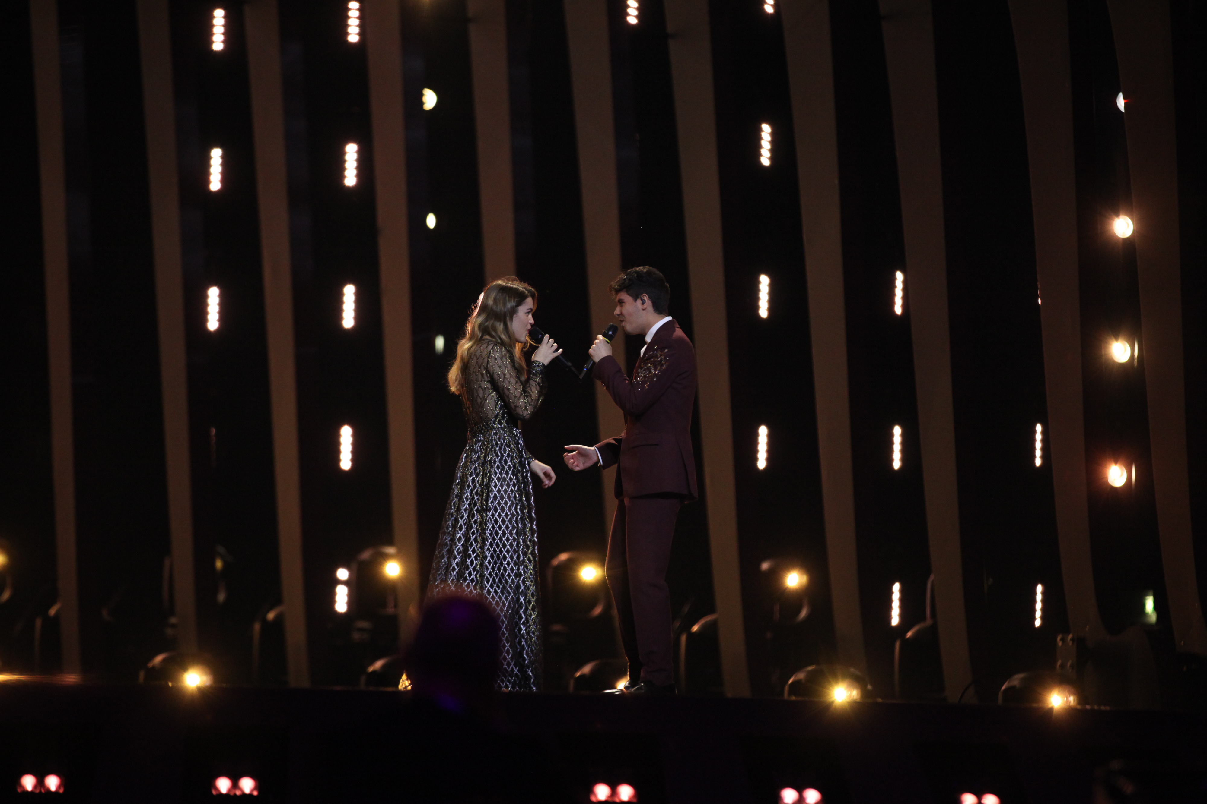 Amaia & Alfred representing Spain with the song "Tu canción" during a rehearsal before the grand final of the Eurovision Song Contest 2018 in Lisbon.